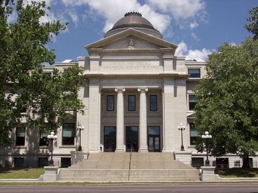 Front of the Ola Babcock Miller Building, home of the State Library of Iowa